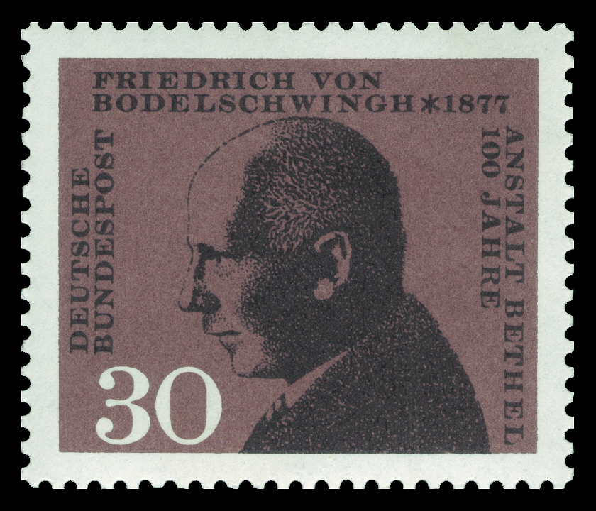 100 years of Bethel Institution Graphics by Michel Ausgabepreis: 30 Pfennig First Day of Issue / Erstausgabetag: 1. Juli 1967 Michel-Katalog-Nr: 537